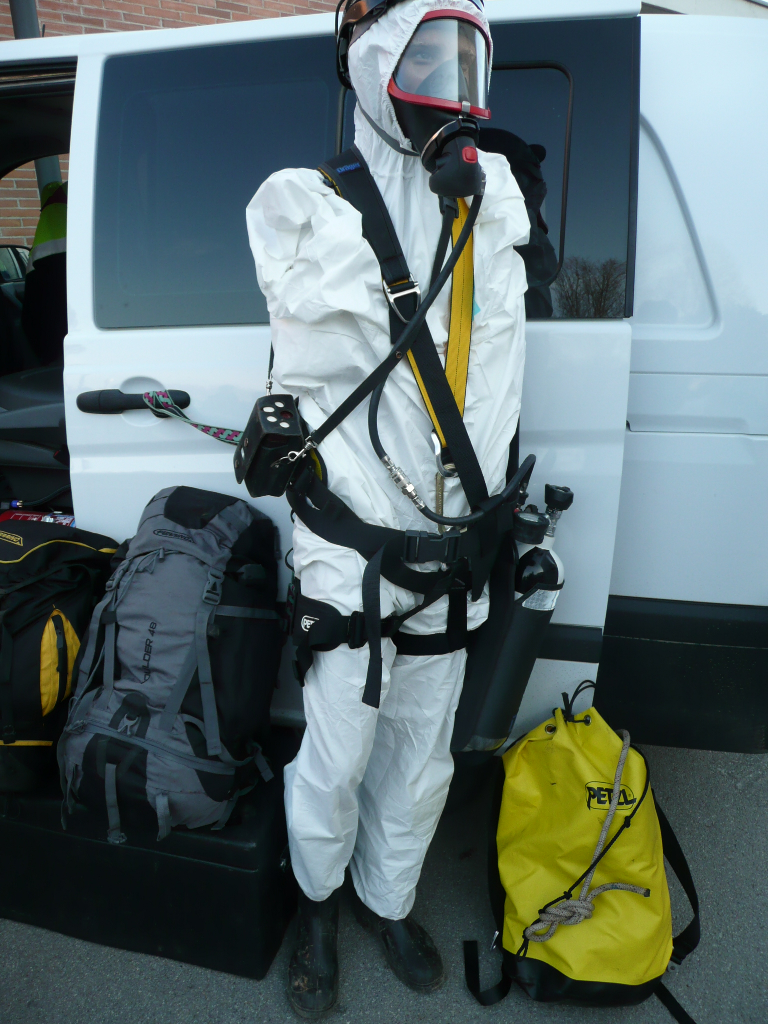 Essential clothing insulation for walking the sewers. The dummy also wears an oxygen mask.